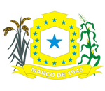 Coat of arms of the city of Mucajaí, Roraima, Brazil.